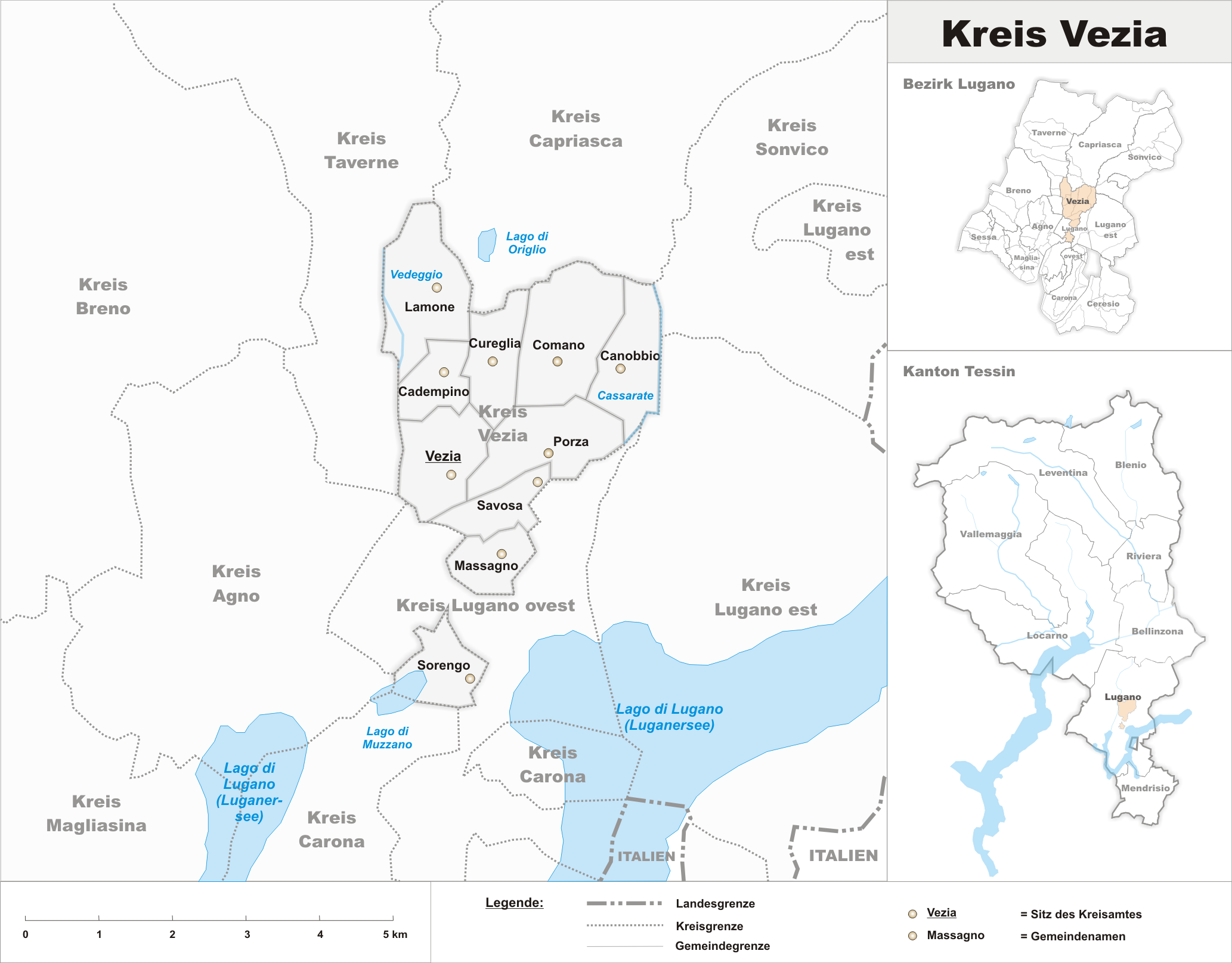 Municipalities in the circle of Vezia